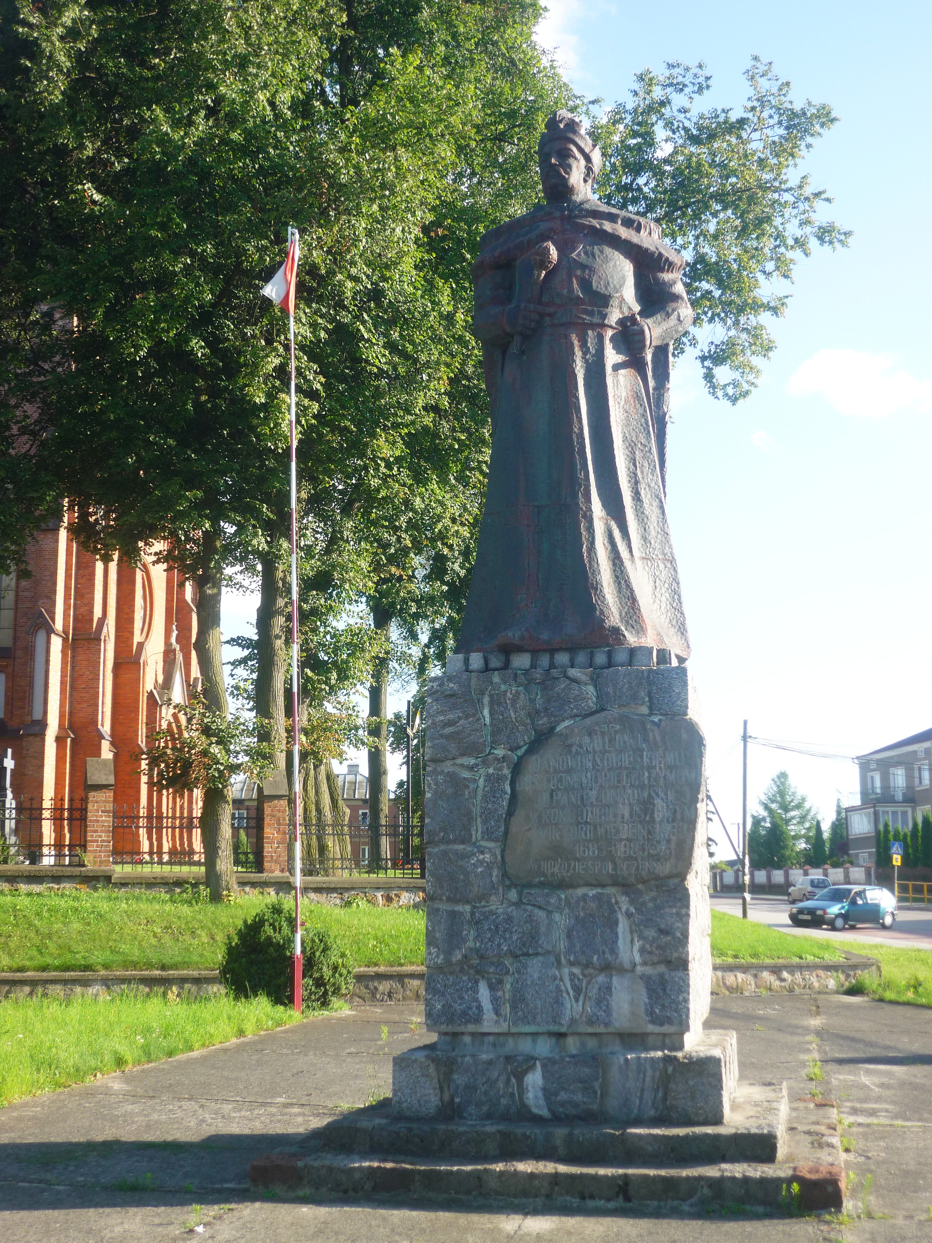 Monument of Polish king Jan III Sobieski, Płonka Kościelna, Poland